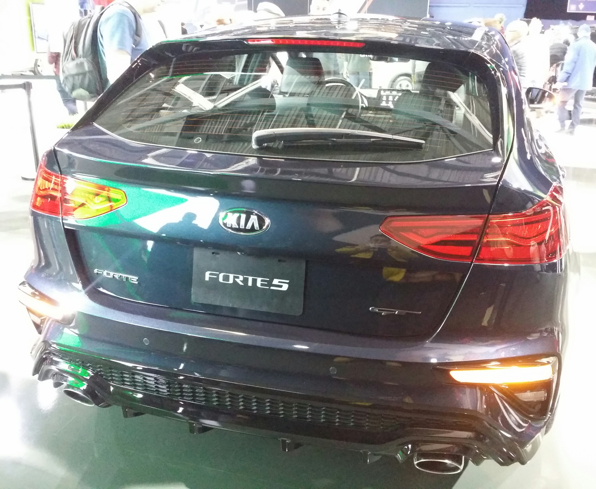 2019 Kia Forte5 photographed in Montréal , Québec , Canada at the 2019 Montréal International Auto Show.